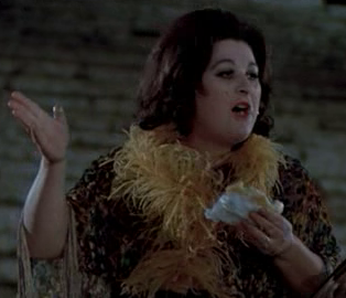 screenshot from the Italian film Per amare Ofelia (1974)